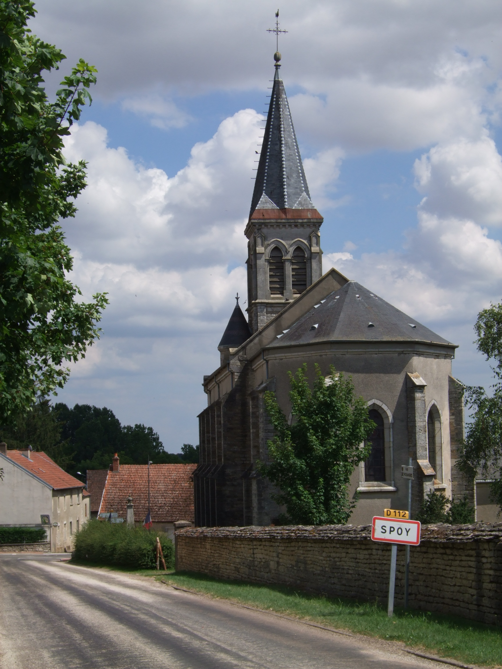 The church of Spoy